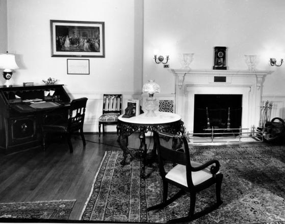 The Lincoln Bedroom of the White House in Washington, D.C., in 1947. This room was an unnamed bedroom suite from the time of its completion in 1809 until 1860, when it was named the Prince of Wales Room. It was renamed the Lincoln Bedroom in 1929, a name it retained until the bedroom suite was removed in 1961 and the space transformed into the Family Kitchen and the President's Dining Room.